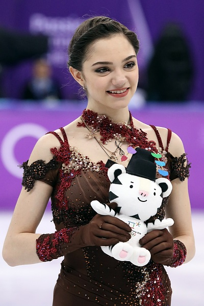 Evgenia Medvedeva at the 2018 Winter Olympic Games - Awarding ceremony